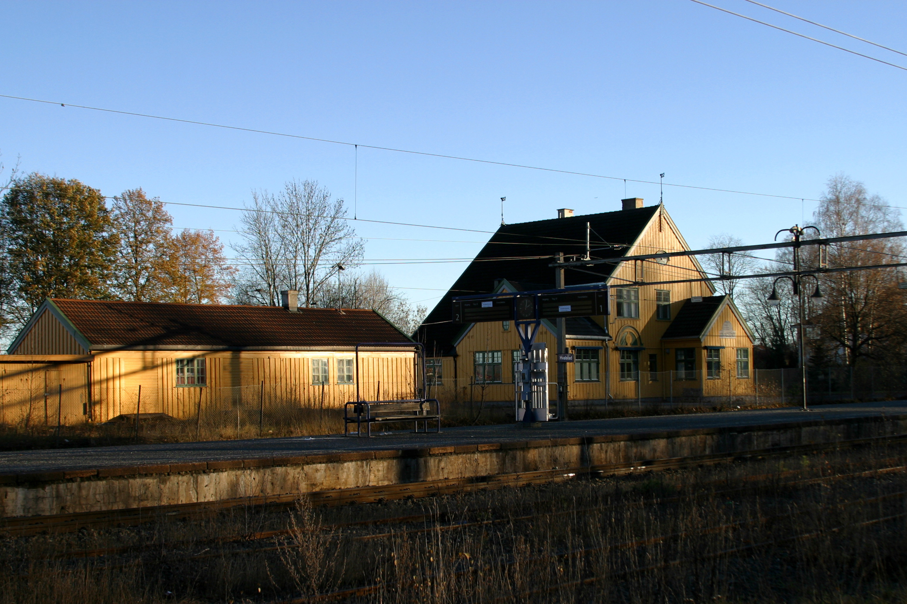 Picture of Hvalstad Railway Station (Norway)